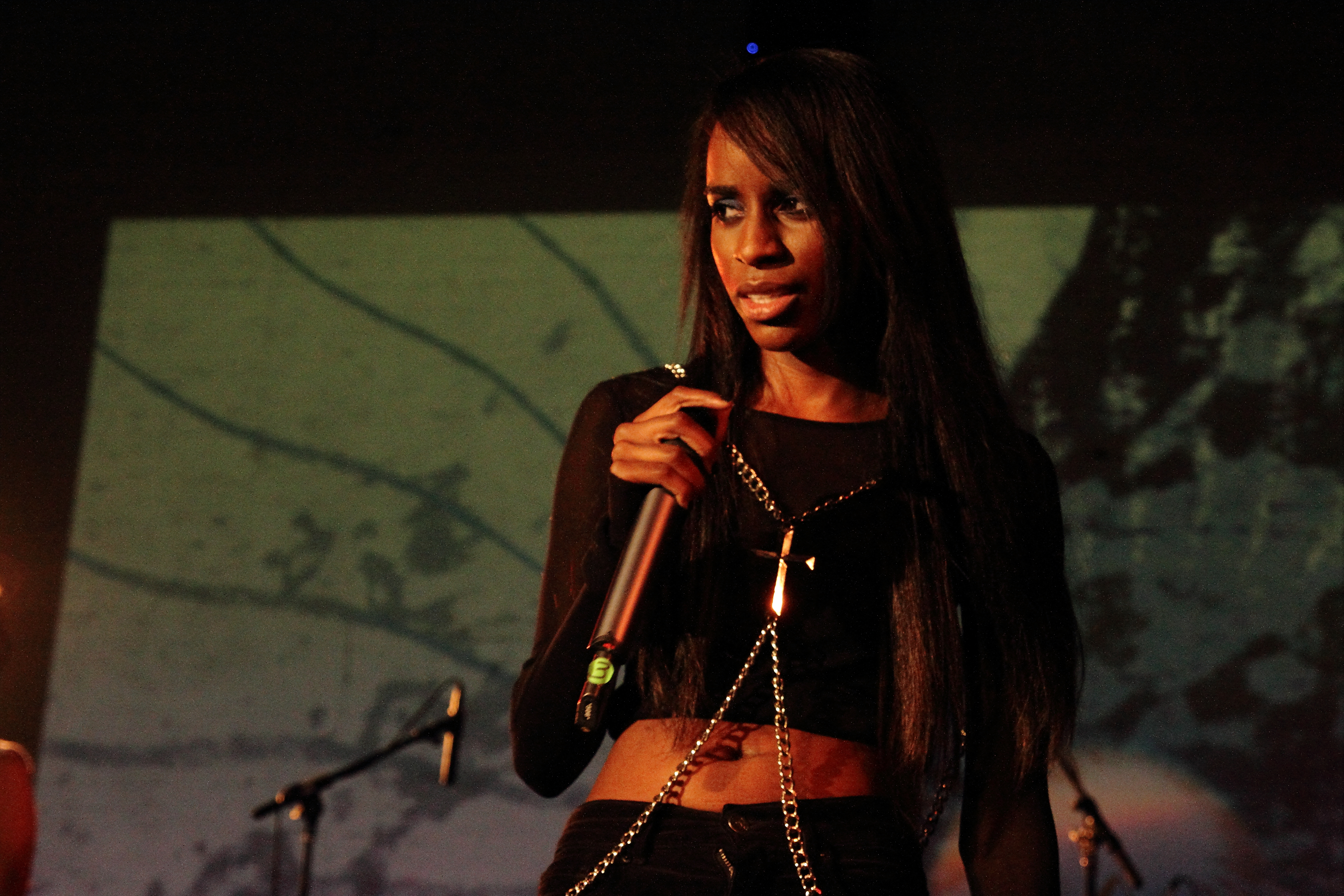 American rapper Angel Haze performing live (October 19, 2012, Brooklyn).